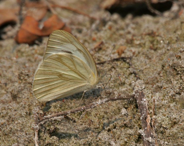 Common Gull Cepora nerissa at Jayanti in Buxa Tiger Reserve in Jalpaiguri district of West Bengal, India.